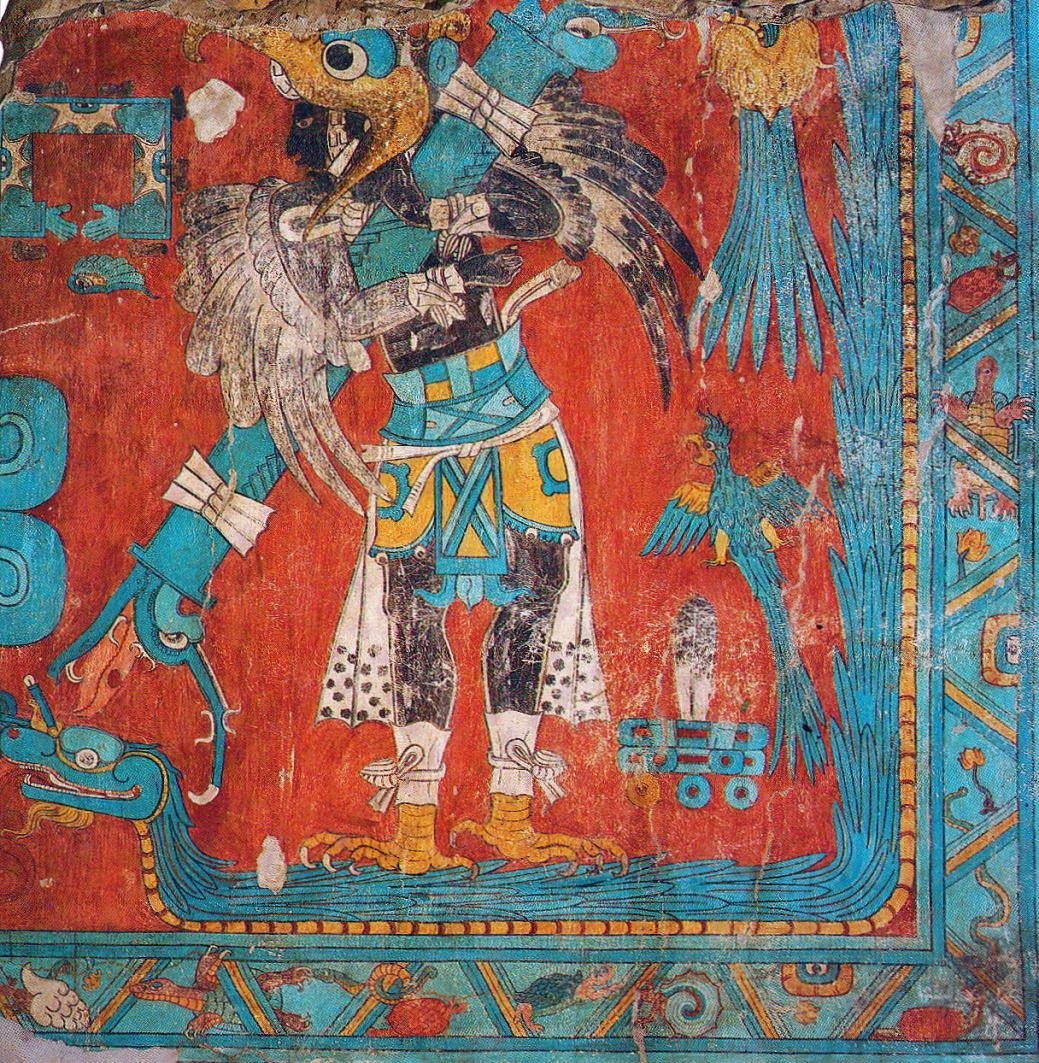 Eagle warrior from mural paintings